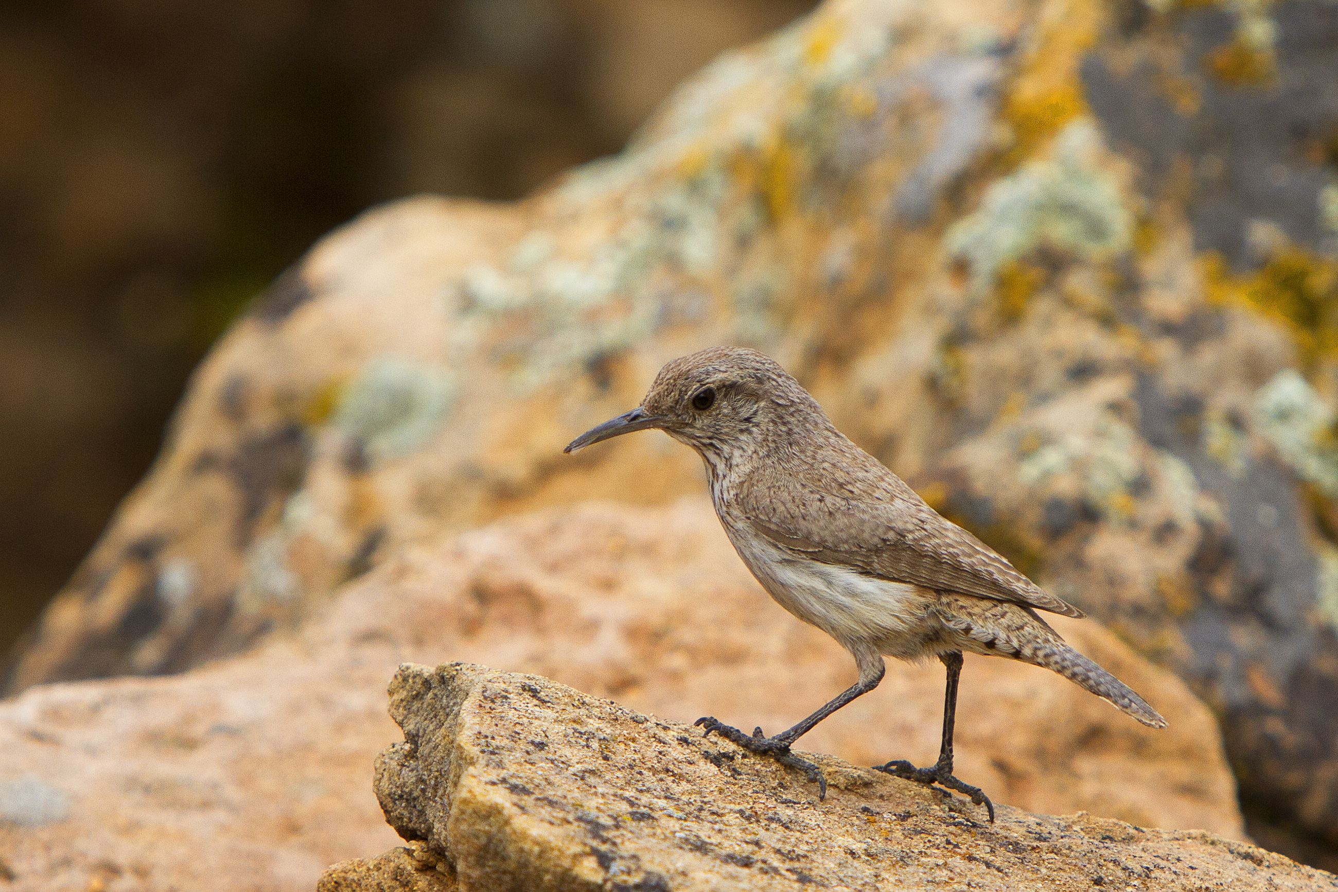 (NPS photo by Andrew Kuhn)